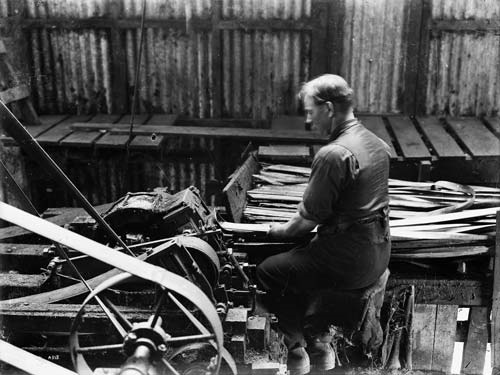 View of a flax worker feeding a flax leaf (New Zealand flax) into the stripper. The negative is a copy of an image in an unidentified publication, photographed by an unidentified photographer. Copy photographed by Albert Percy Godber circa 1910. Inscription from the publication is visible on the negative, but is not shown on the File Print.